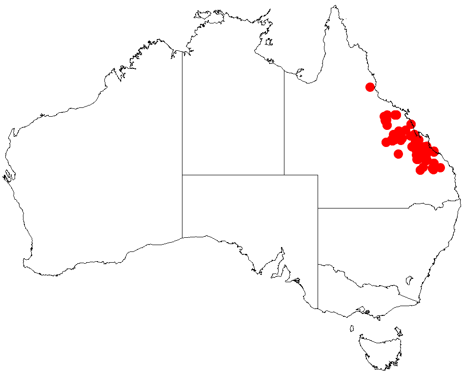 Acacia rhodoxylon occurrence data from Australasian Virtual Herbarium downloaded from on December 8 2018